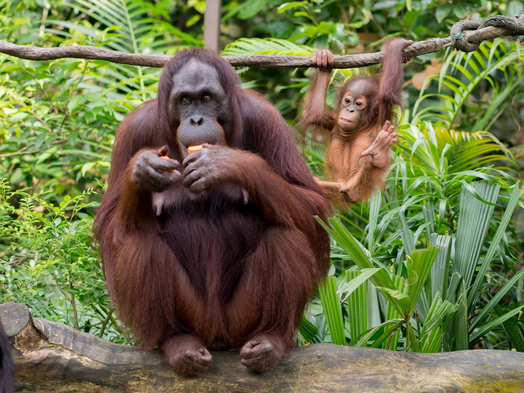 Solitary orangutan eating with infant